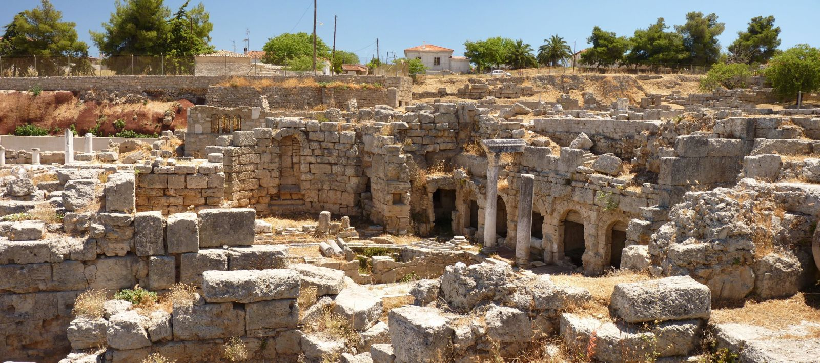 Ancient Corinth - Fountain of Peirene